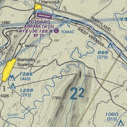 The representation of Minimum Safe Altitude (MSA) over an area, measured in feet above Mean Sea Level, look at 22. This means that flying at or above 2200 ft all obstacles and peaks are safely avoidable even if pilot does not see them. Each chart section has its own MSA value.